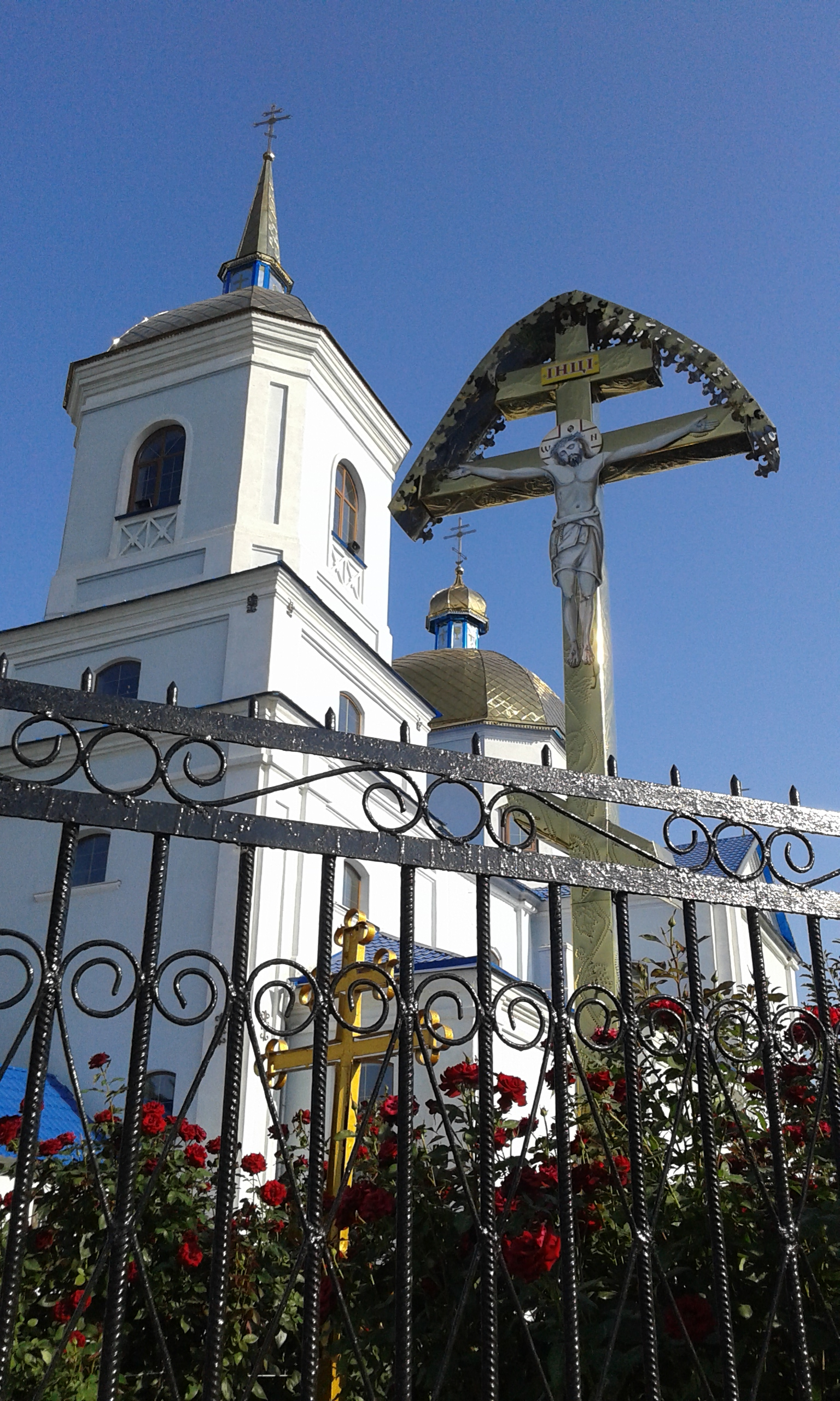 GOLDEN DOMES OF ST ASSUMPTION ORTHODOX CATHEDRAL IN CITY OF BAR REGION OF VINNYTSIA STATE OF UKRAINE 20170819